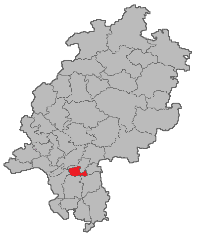 Map of the district court Langen in Hesse